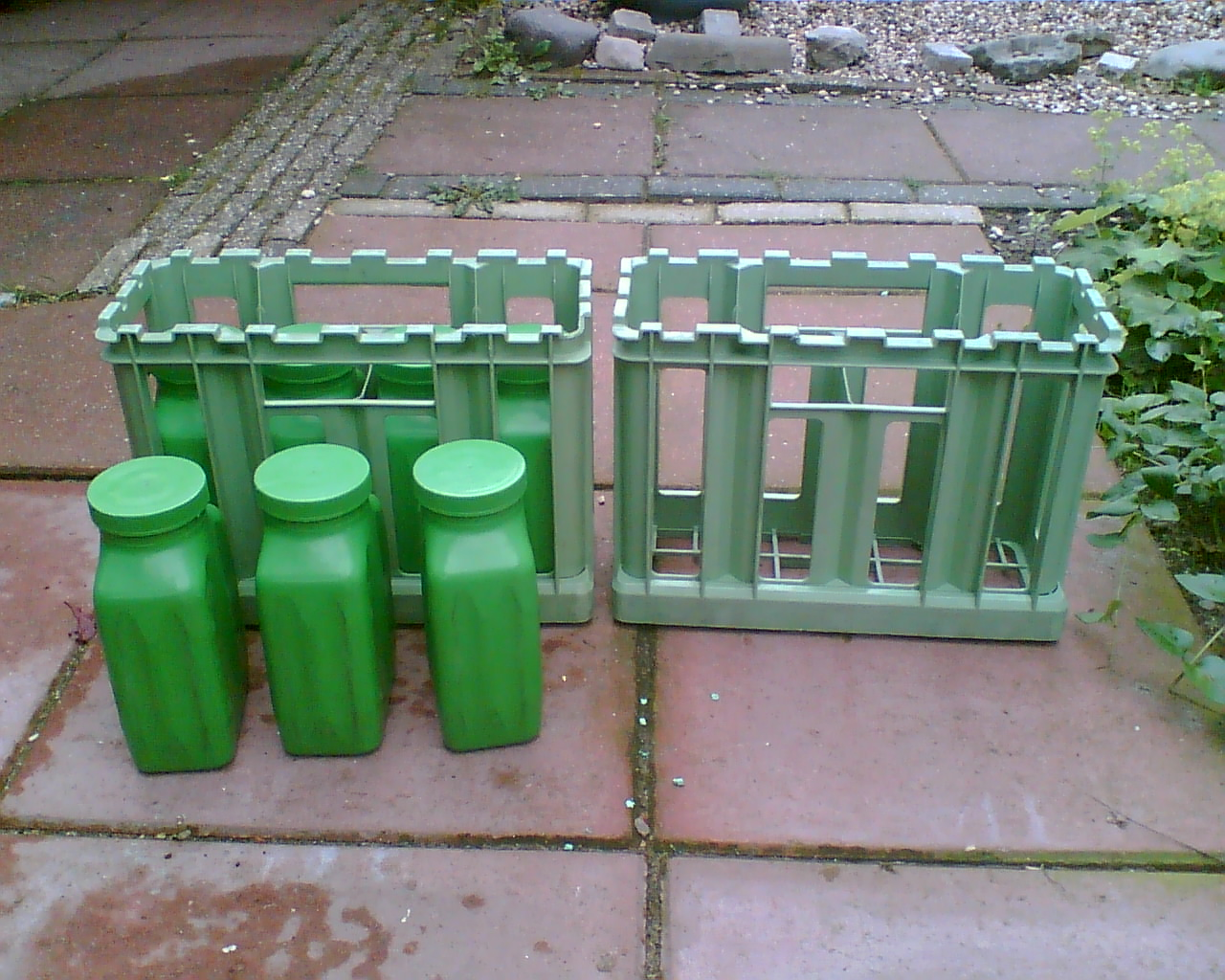 Urine is collected in these green plastic 1 L bottles. The urine was collected by a company who purified a fertility hormone from it (urine from pregnant women in first trimester contains elevated levels of fertility hormone hCG).